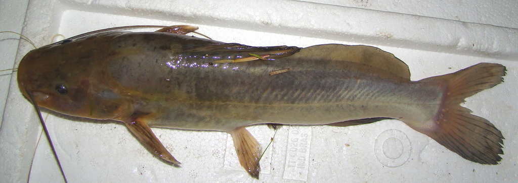 Rhamdia quelen from a dam in Rio Grande do Sul, Brazil, photographed on February 2009. FishBase